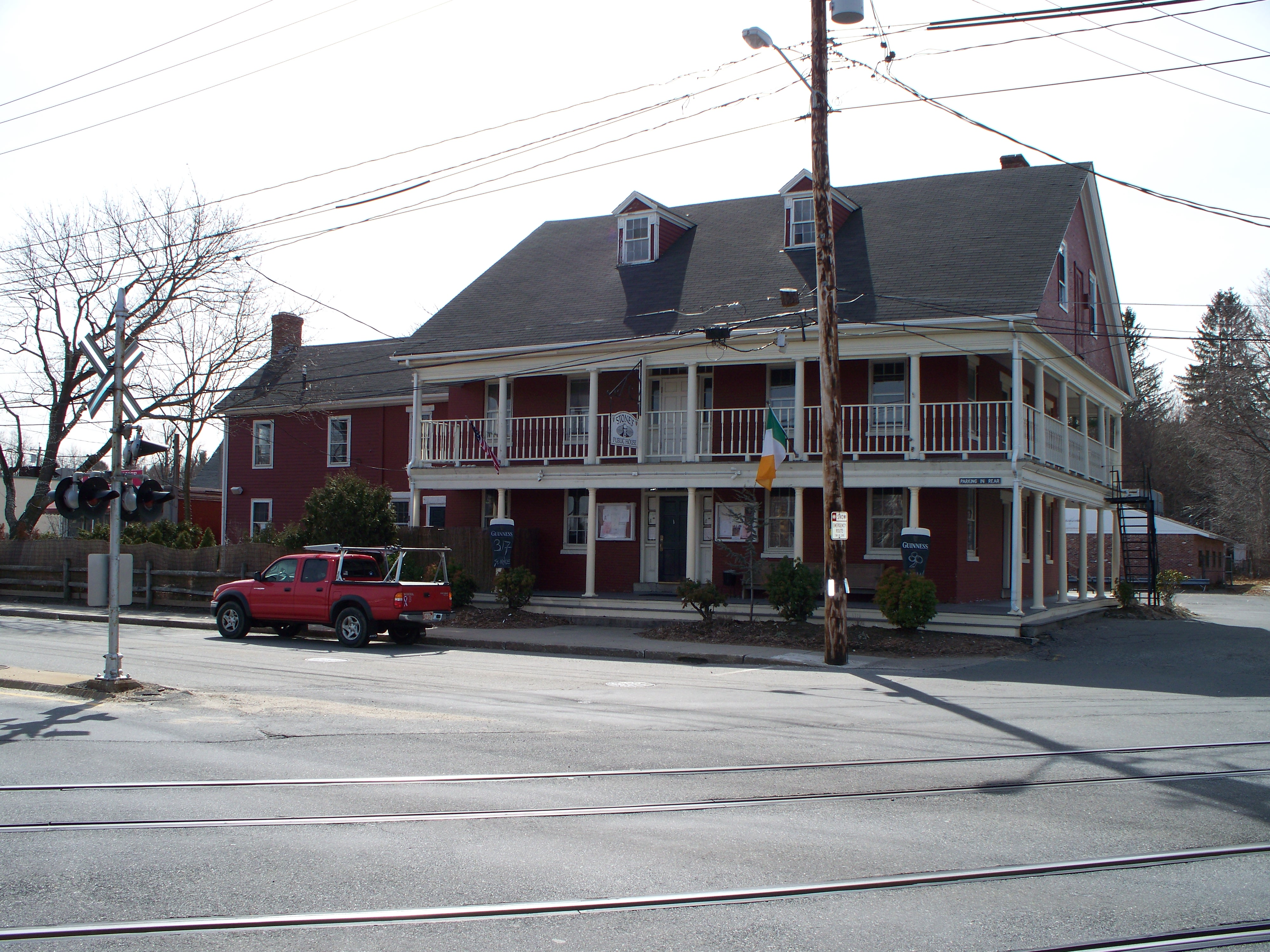 View of Stone's Public House, Ashland, Massachusetts